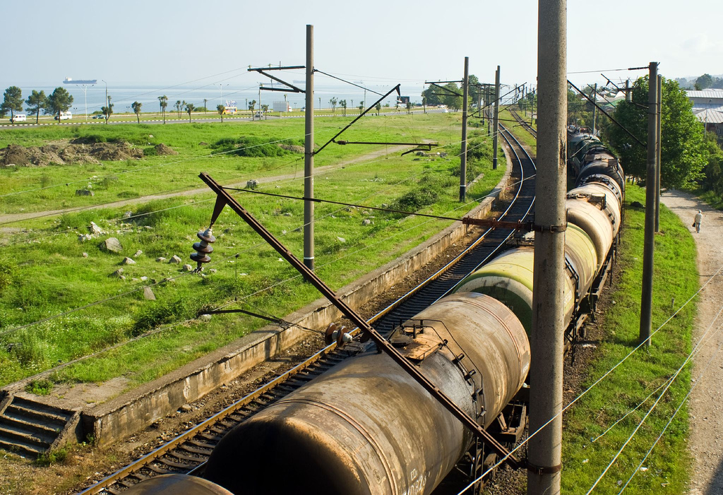 Oil train, Batumi